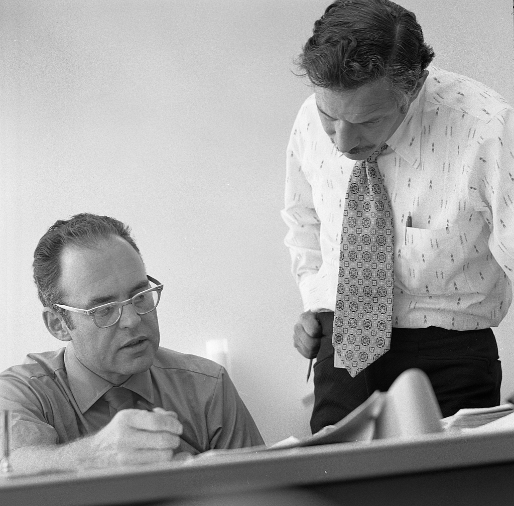 Gordon Moore (left) and Robert Noyce founded Intel in 1968 when they left Fairchild Semiconductor. Andy Grove joined the company the day it was incorporated.